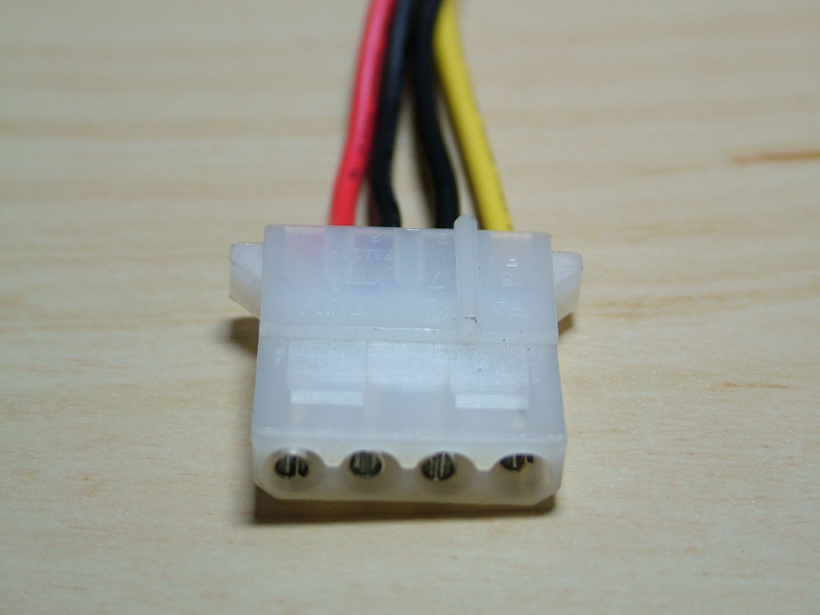 A typical Molex connector